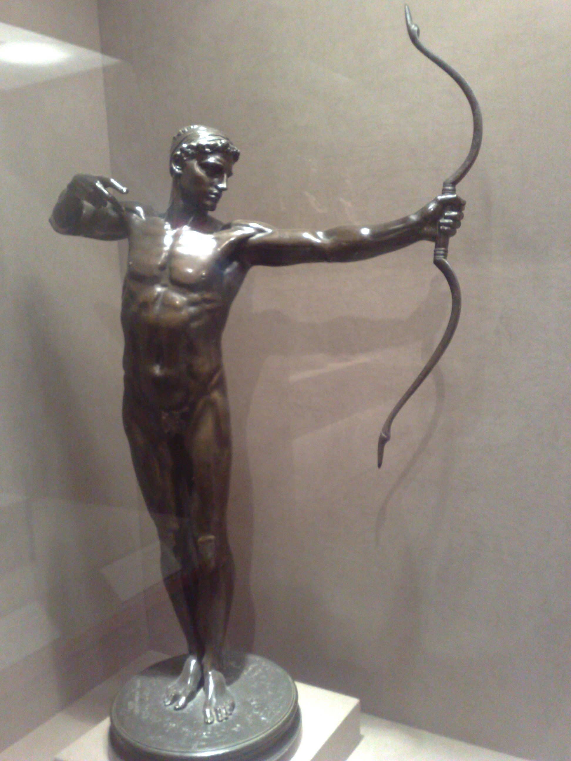 Sir William Hamo Thornycroft (1850 - 1925) Teucer, after 1881 Sculpture, Bronze, Height: 22 in. (55.88 cm) James E. Clark Bequest (M.87.119.26) Wikipedia Loves Art at the Los Angeles County Museum of Art This photo of item # M.87.119.26 at the Los Angeles County Museum of Art was contributed under the team name "yokim" as part of the Wikipedia Loves Art project in February 2009. Los Angeles County Museum of Art The original photograph on Flickr was taken by yonghokim—please add a comment to the original Flickr page whenever a use has been made on Wikipedia or another project. Project galleries on Flickr: this institution, this team